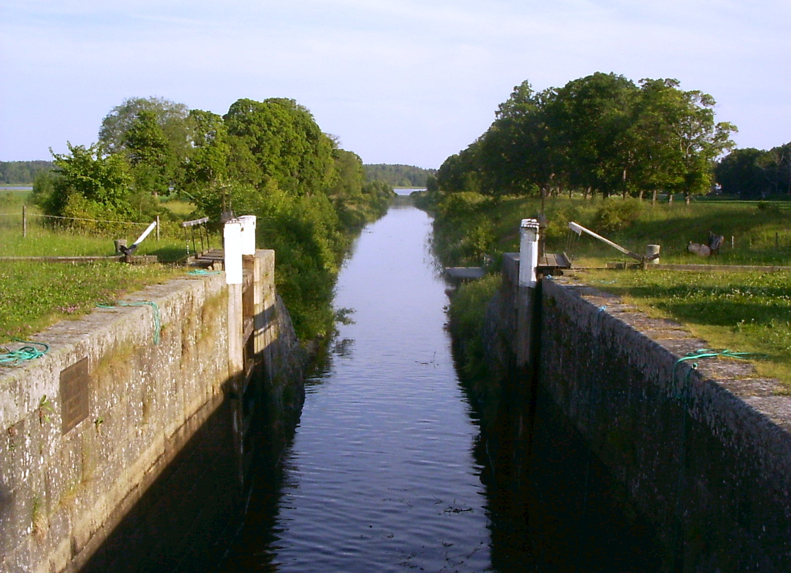 Carl XV lock, looking south